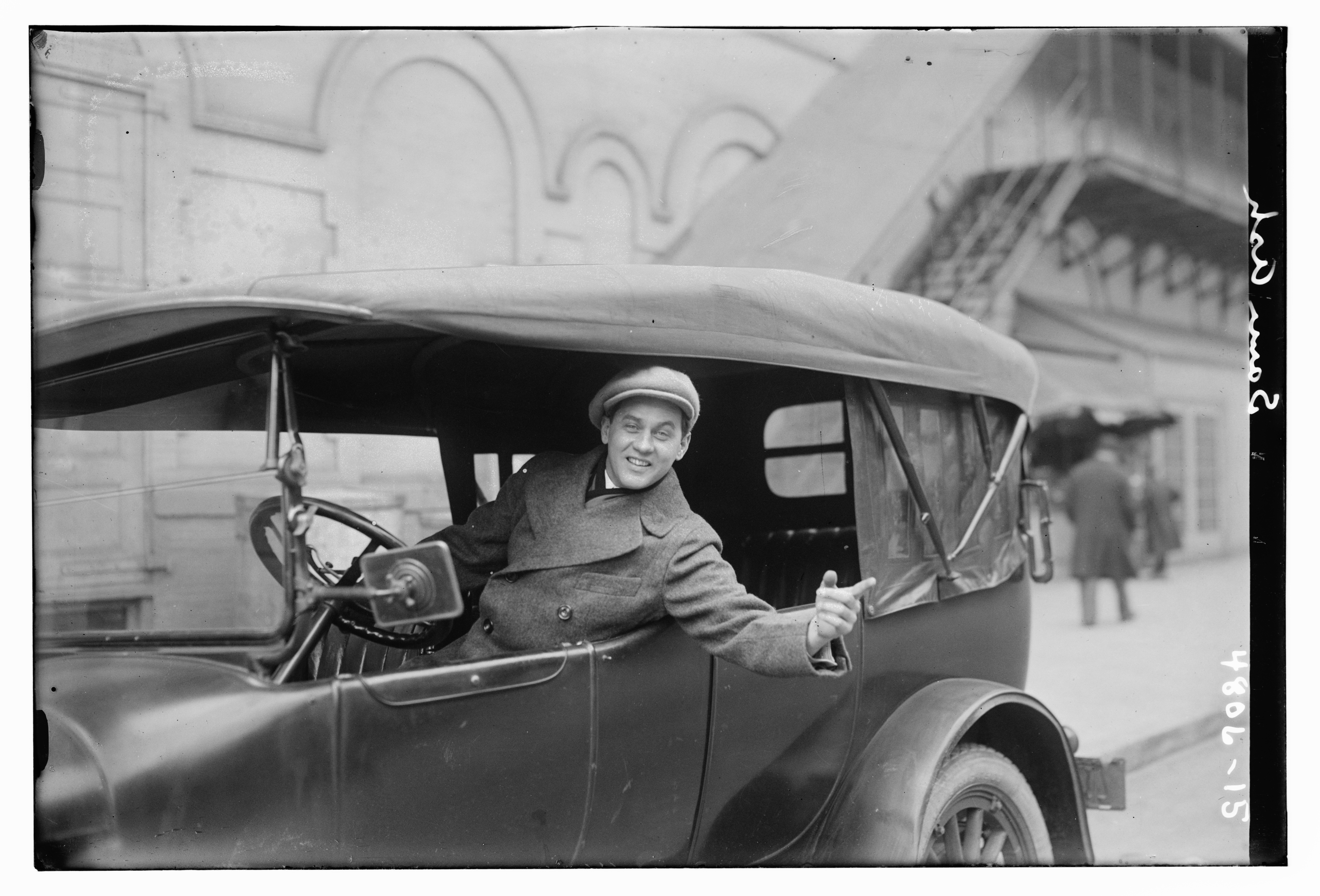 Samuel Howard Ash in 1918